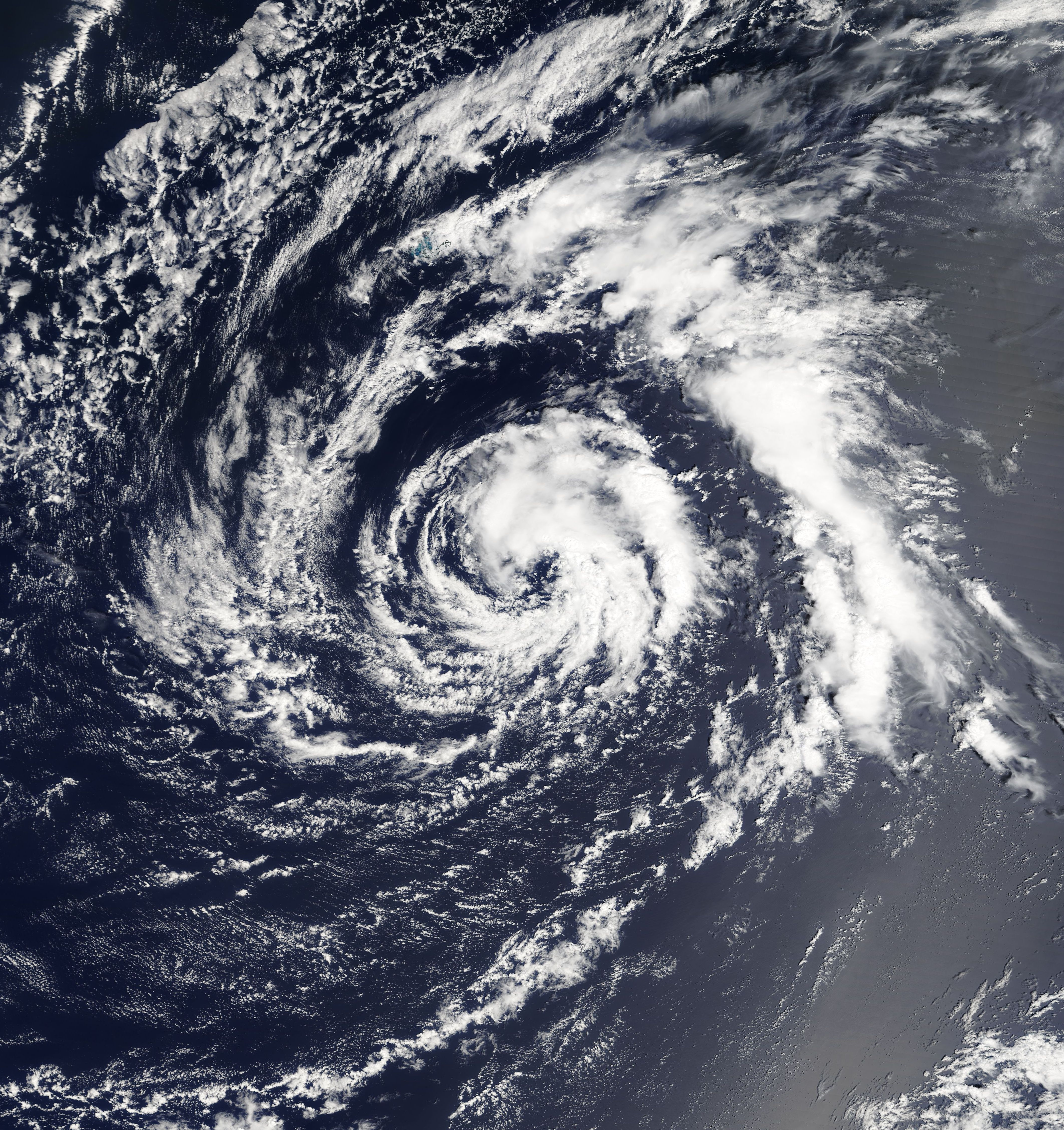 Tropical Storm Ana on April 21, 2003